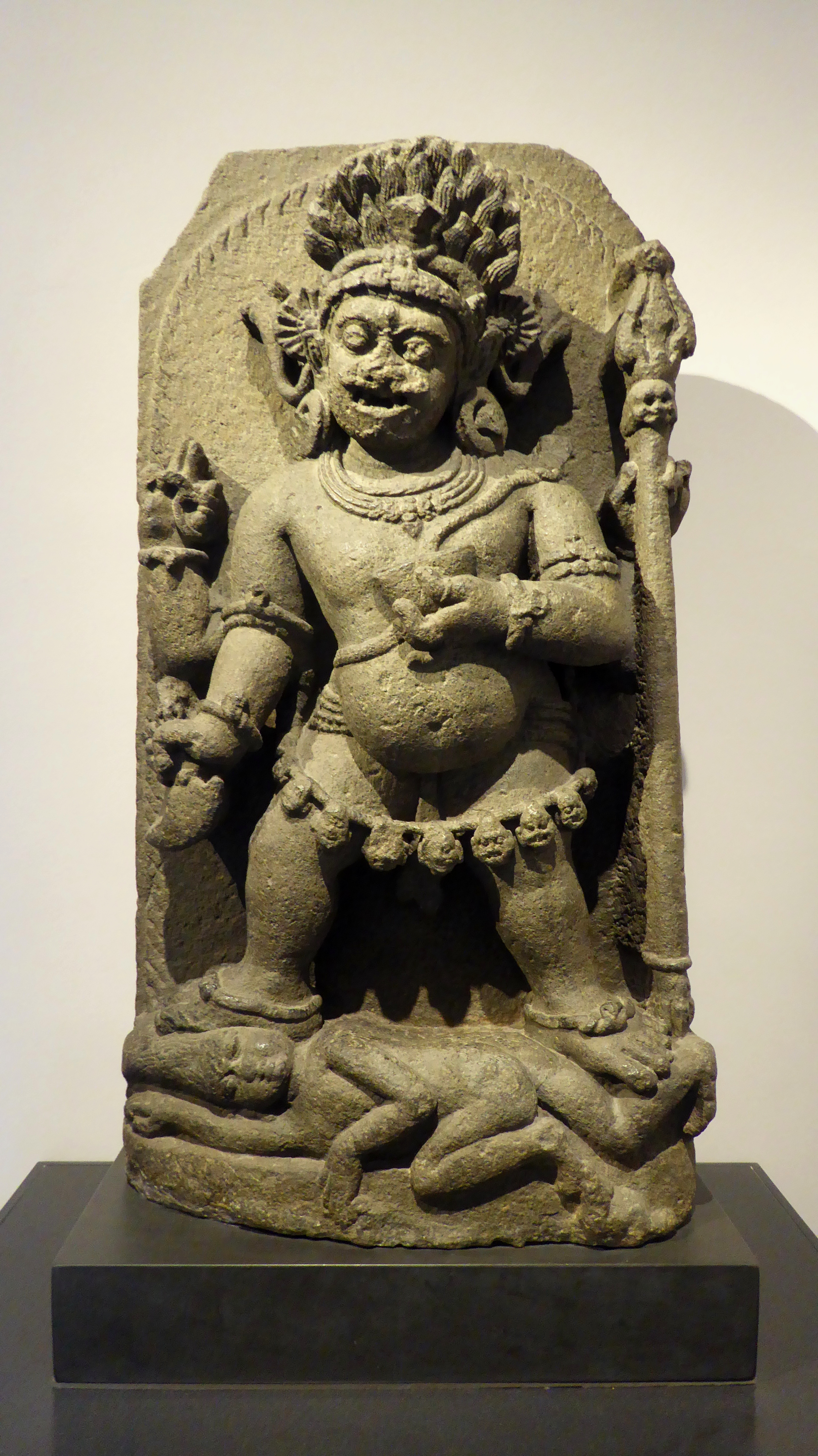 A basalt statue of Mahakala from Orissa. Dated to the Pala period (1100 to 1200 CE). Now on display at the Victoria and Albert Museum in West London (Museum number IM.10-1930).